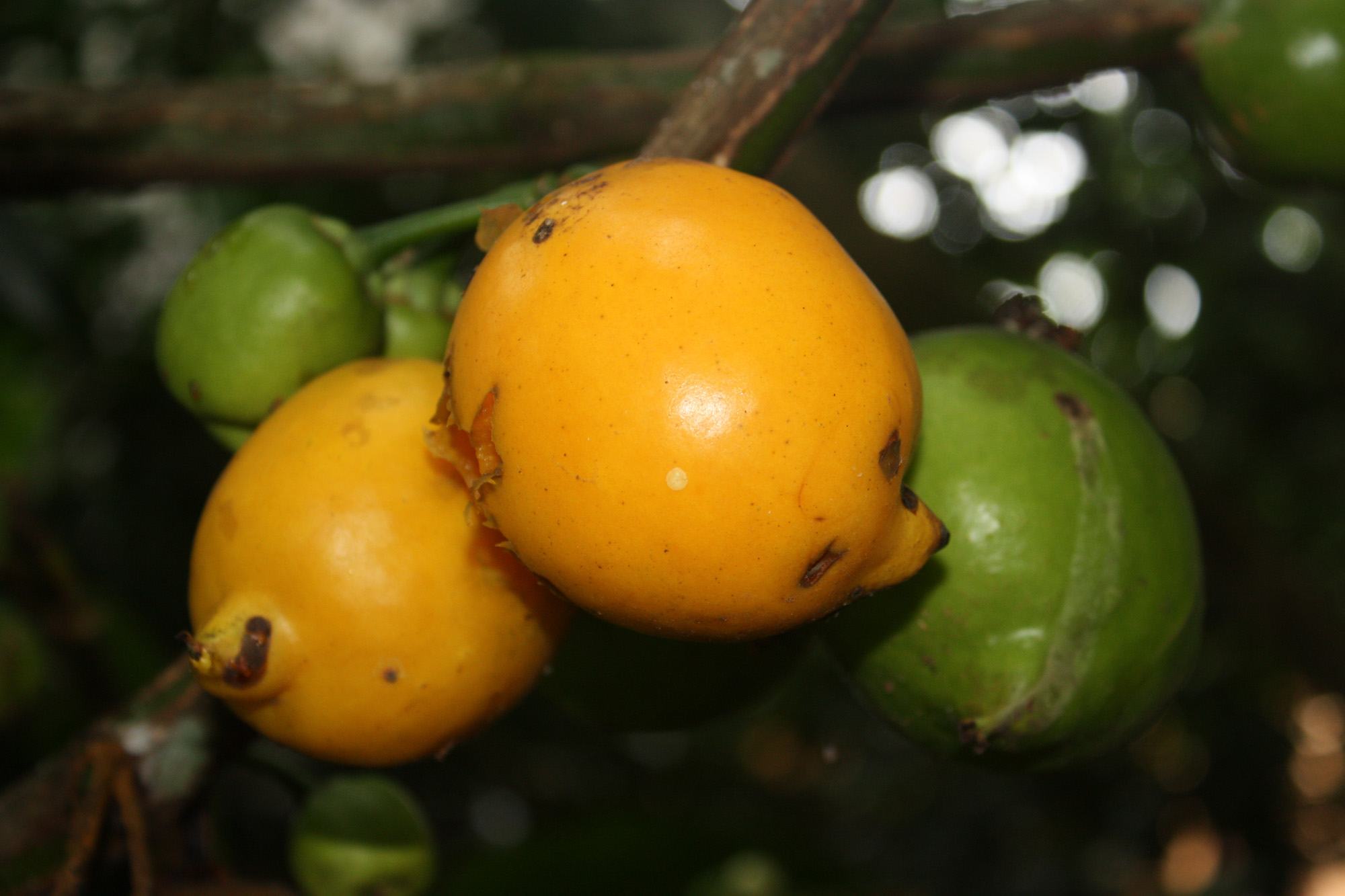 Fruit of White Sapote (Casimiroa edulis)